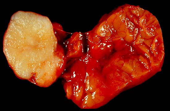 Mixed Tumor of the Salivary Gland This benign tumor of the submandibular gland, also known as pleomorphic adenoma, presented as a painless neck mass in a 40-year-old man. At the left of the image is the white tumor with its characteristic cartilaginous cut surface. To the right is the normally lobated submandibular salivary gland. Unlike most of my gross photos, this one was shot in the fresh state. This does show best what tissue looks like to the operating surgeon, but the soft, collapse-prone tissue, with its blood staining and distracting highlights, doesn't show anatomic details as well as do photos of formalin-fixed specimens. This pic was shot with a Minolta X-370 with a 100-mm Rokkor bellows lens, on Kodak Elite daylight ISO 100 film, using a blue compensator to correct for tungsten illumination. Photograph by Ed Uthman, MD. Public domain. Posted 13 May 00